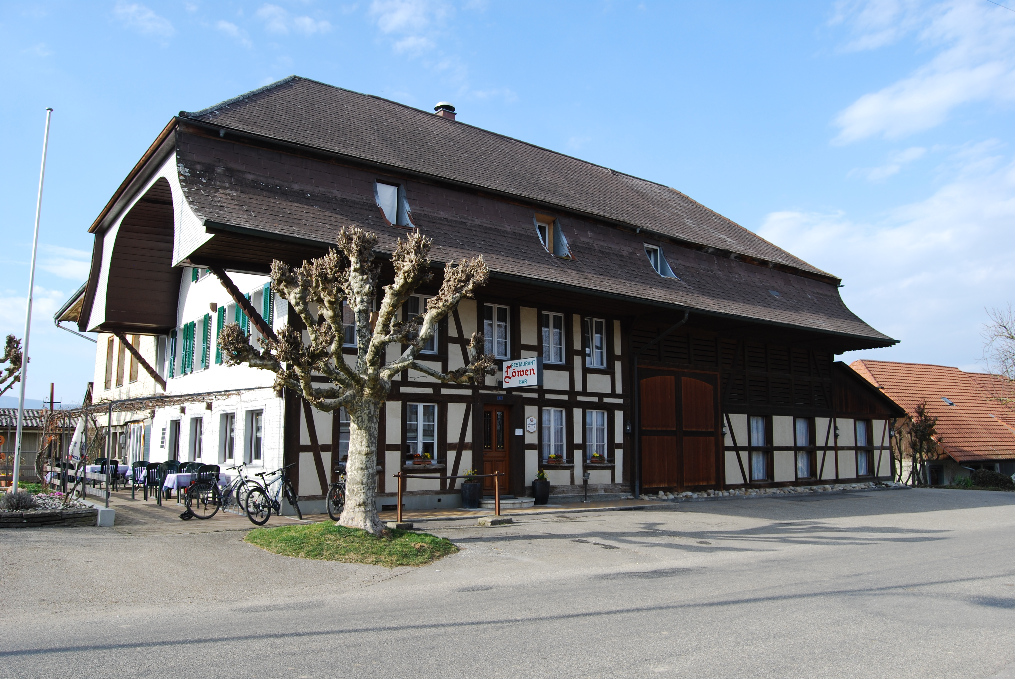 Restaurant Löwen, Thunstetten, canton of Bern, Switzerland